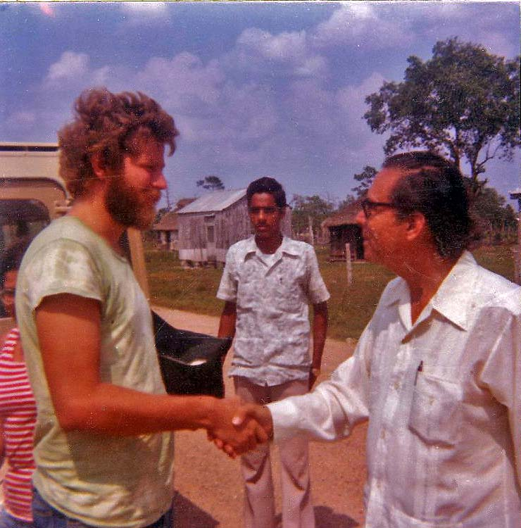 George Cadle Price and a Peace Corps volunteer, Belize, 1976